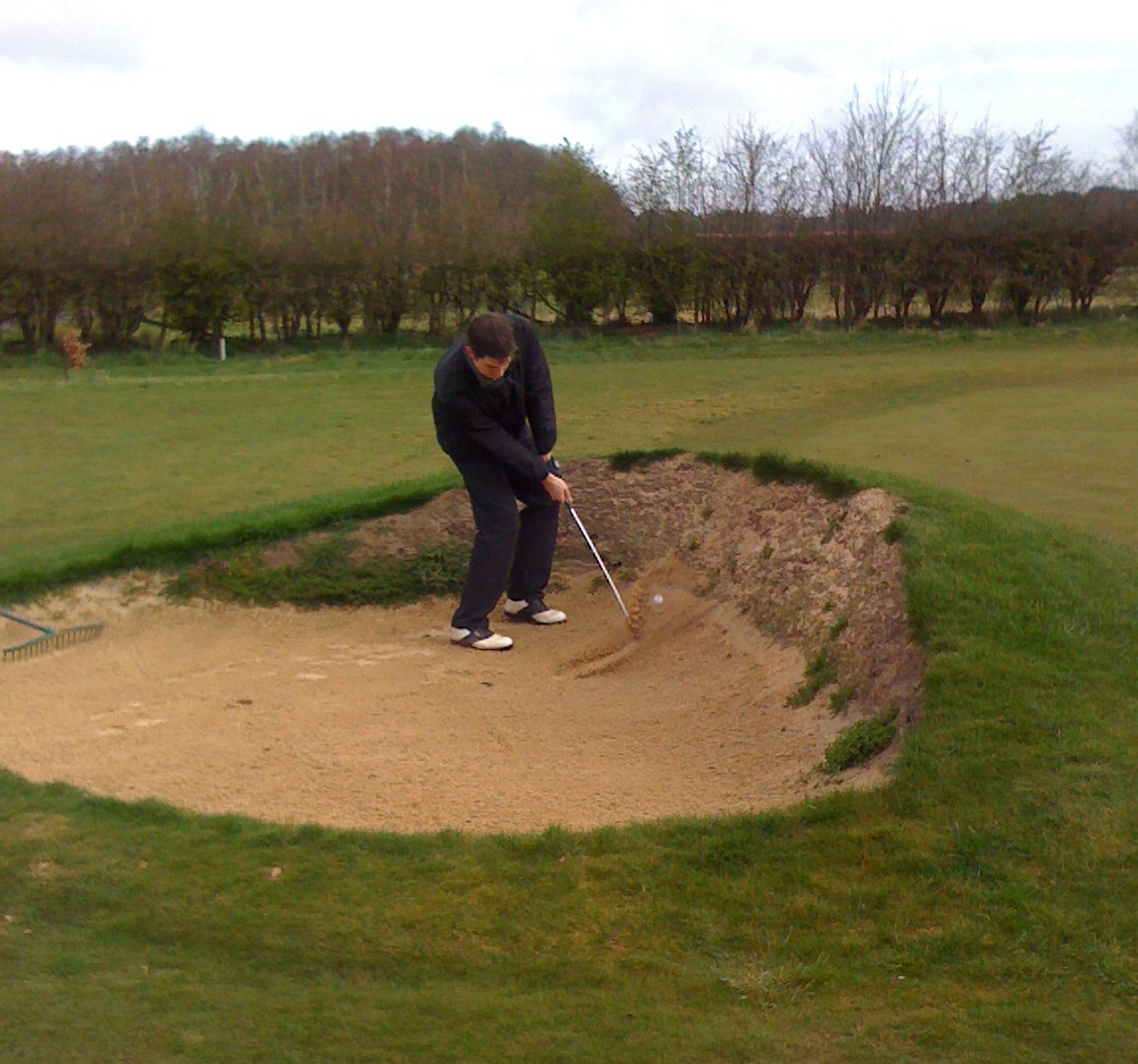 Hacking my way out of a bunker